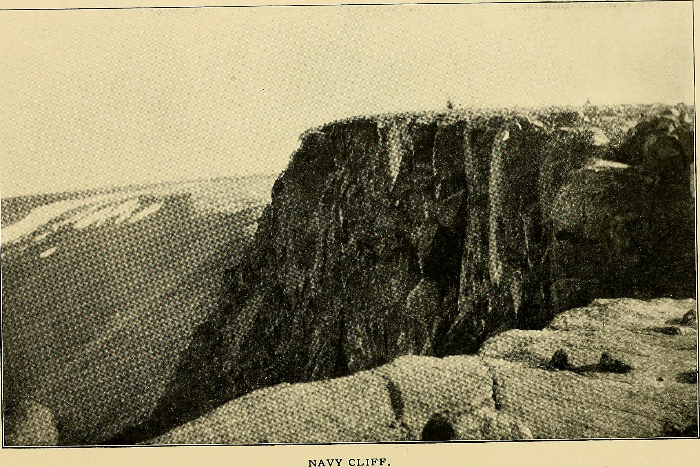 Title: Northward over the great ice : a narrative of life and work along the shores and upon the interior ice-cap of northern Greenland in the years 1886 and 1891-1897, with a description of the little tribe of Smith Sound Eskimos, the most northerly human beings in the world, and an account of the discovery and bringing home of the Saviksue or great Cape York meteorites Year: 1898 (1890s) Authors: Peary, Robert E. (Robert Edwin), 1856-1920 Subjects: Eskimos Publisher: New York, NY : F.A. Stokes Company Text Appearing Before Image: CHAPTER XII. NORTHERNMOST GREENLAND. We Set out for the Rkd Hills and Valleys—Our Dogs Glad toReach Terra Firma—Very Rough Travelling over the Sharp Stones—Sighting Musk-Oxen at Last—I Kill Two of the Animals andCapturi-. One Alive—A Feast of Musk-Ox Steaks—The Last Summitbetween us and the Sea—A Glorious Panorama as we Emerge uponA Giant Cliff—An Ice-Covered Bay 3800 Feet below us—Eastwardthe Arctic Sea Expands to the Horizon—We had Traced the NorthCoast of the Mainland—The Bluffs and Channels Farther North—A Never-to-be-Forgotti-.\ Fourth of July. Text Appearing After Image: CHAPTER XII. NORTHERNMOST GREENLAND.